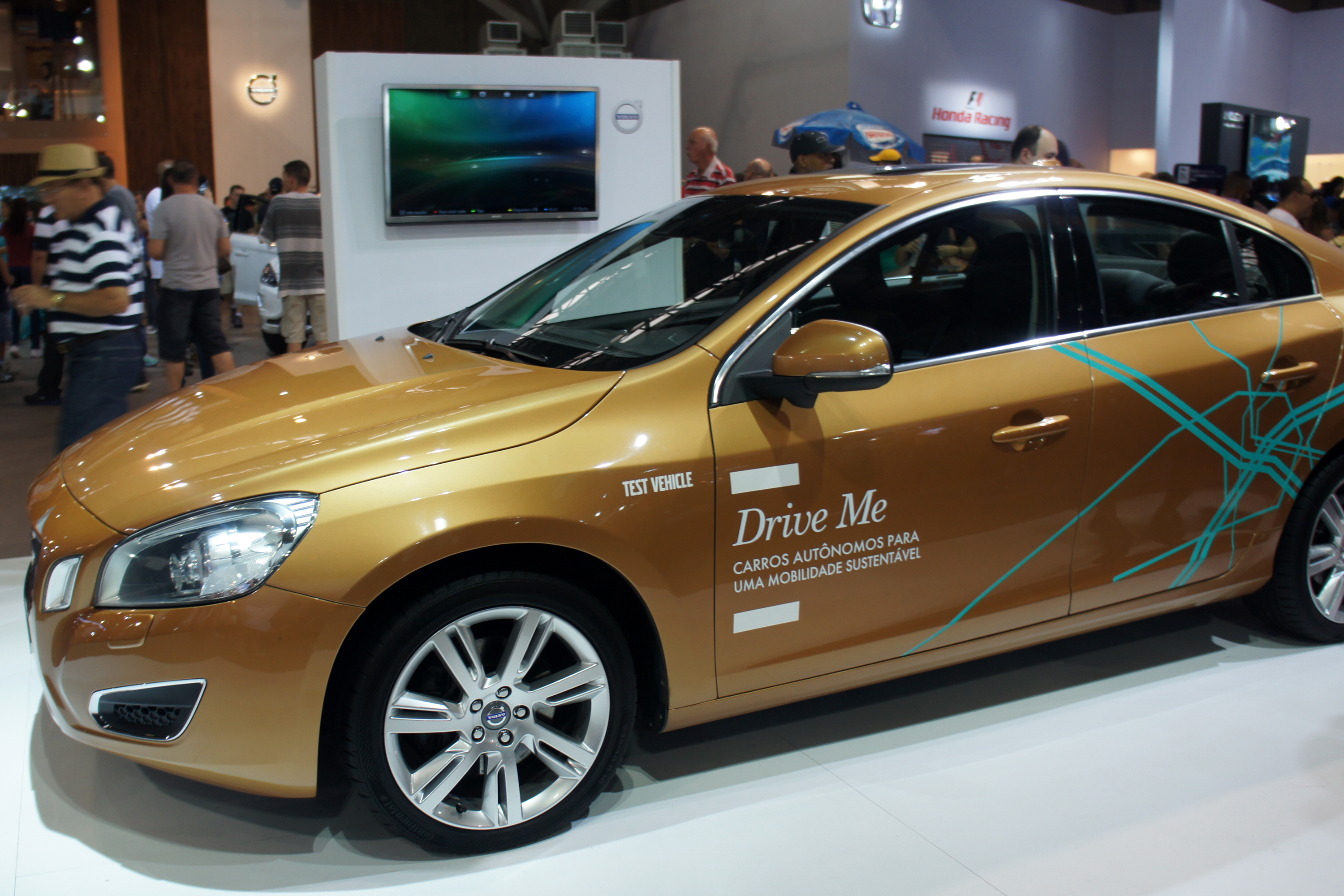 Volvo Drive Me autonomous driving test car exhibited at the 2014 Salão Internacional do Automóvel São Paulo, Brazil